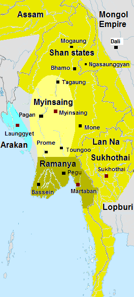 Burma circa 1310 showing Myinsaing Kingdom, Ramanya, Arakan and the Tai-Shan realm Based on map in Lieberman (2003), p. 26